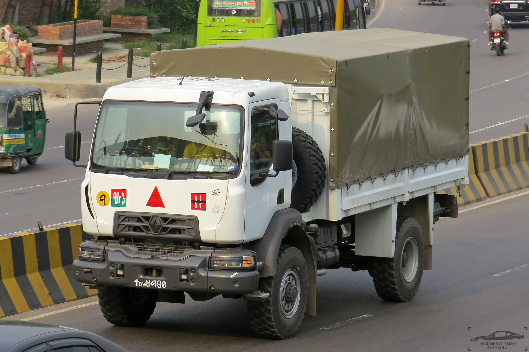 Airport Rd 2017.